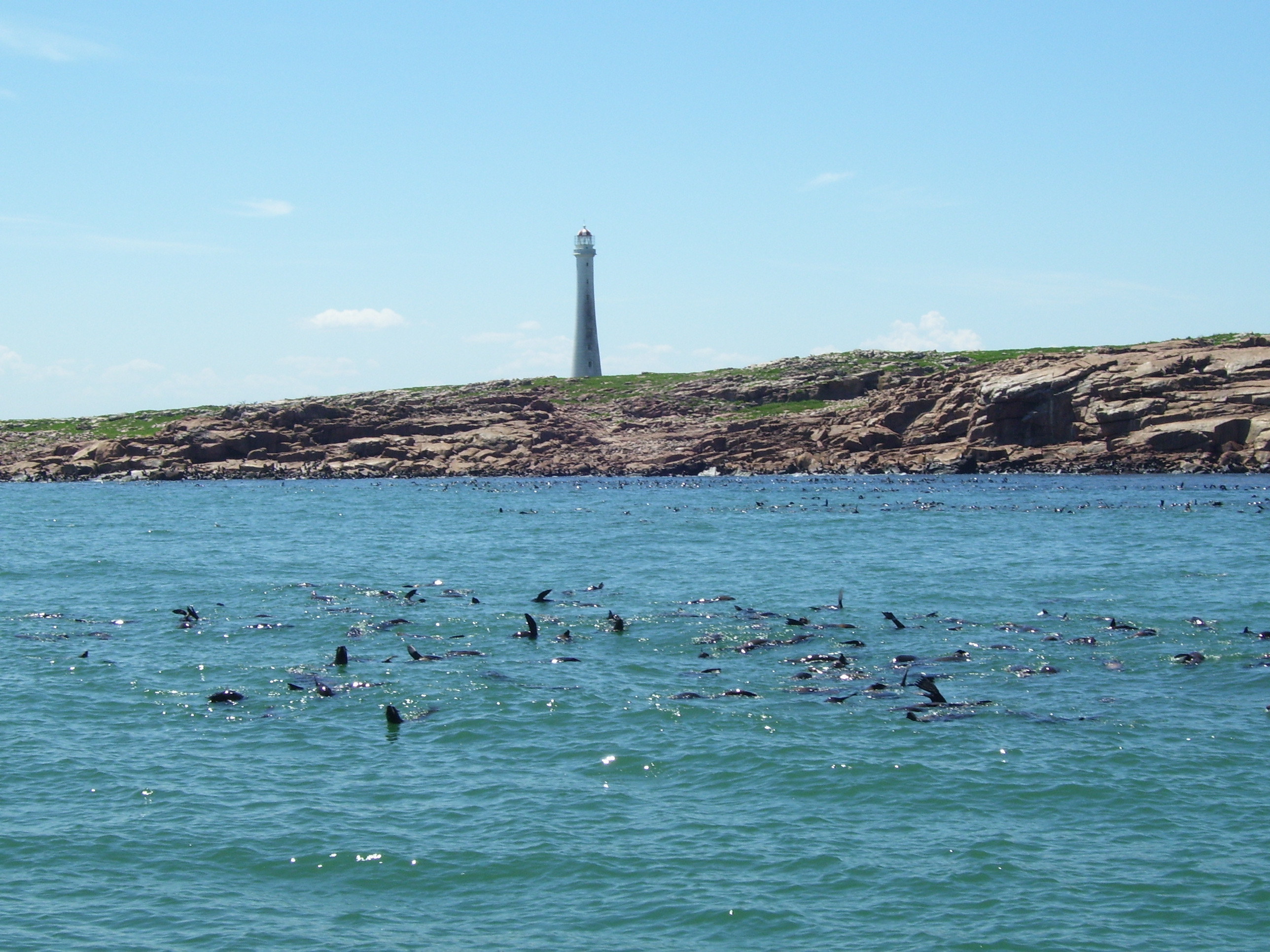 Sea lions in Isla de Lobos; Isla de Lobos lighthouse. Punta del Este, Uruguay.